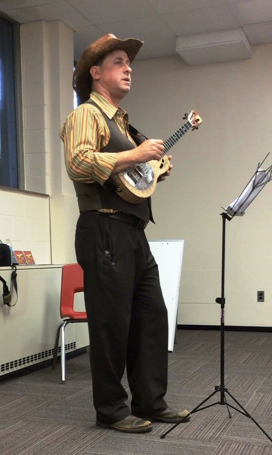 Lil' Rev, with his Mya Moa reverberator ukulele teaching a class at Midwest Uke Camp, 2016.